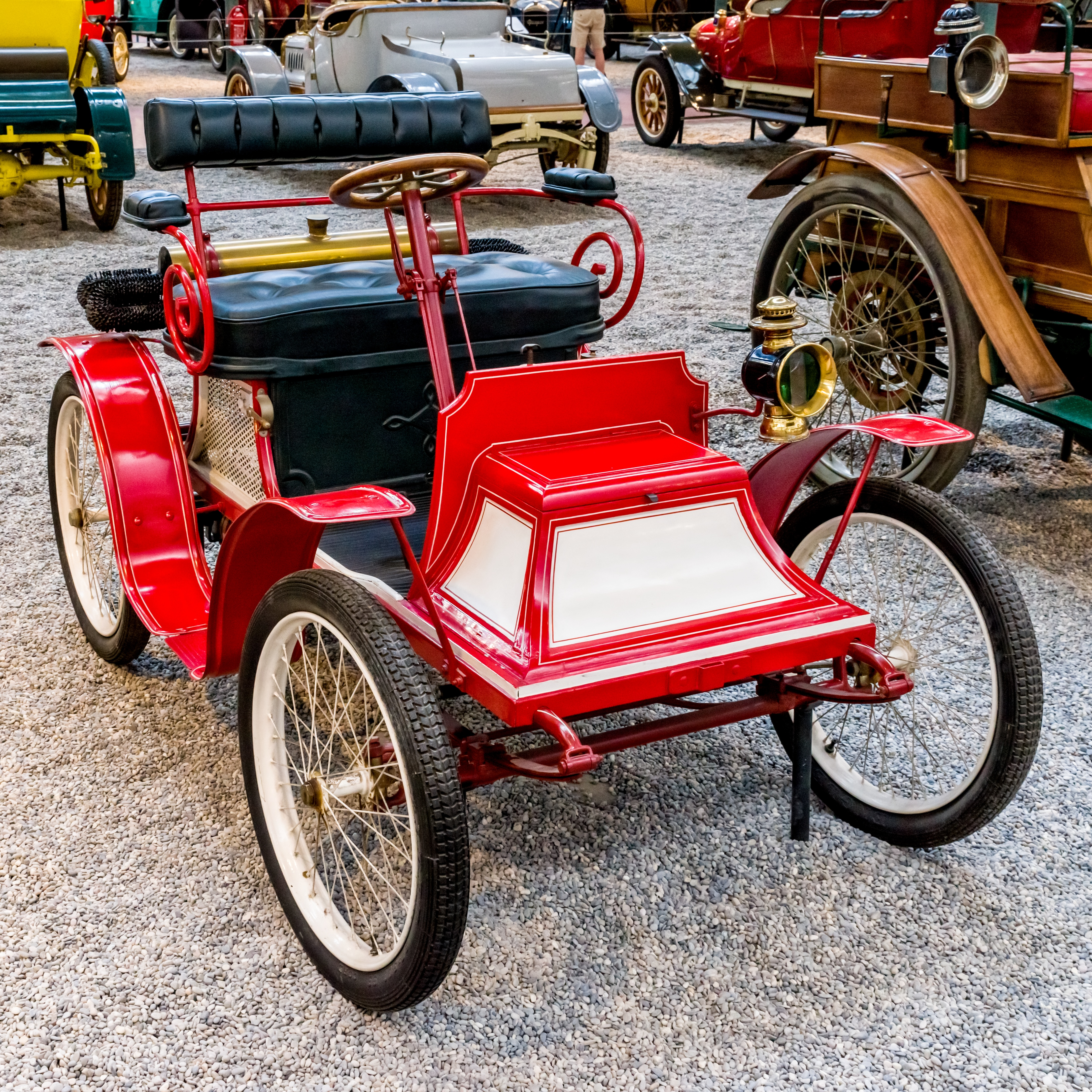 pictures from the Cité de l’Automobile – Musée National – Collection Schlump in Mulhouse, France ptictures from the 10. may 2018